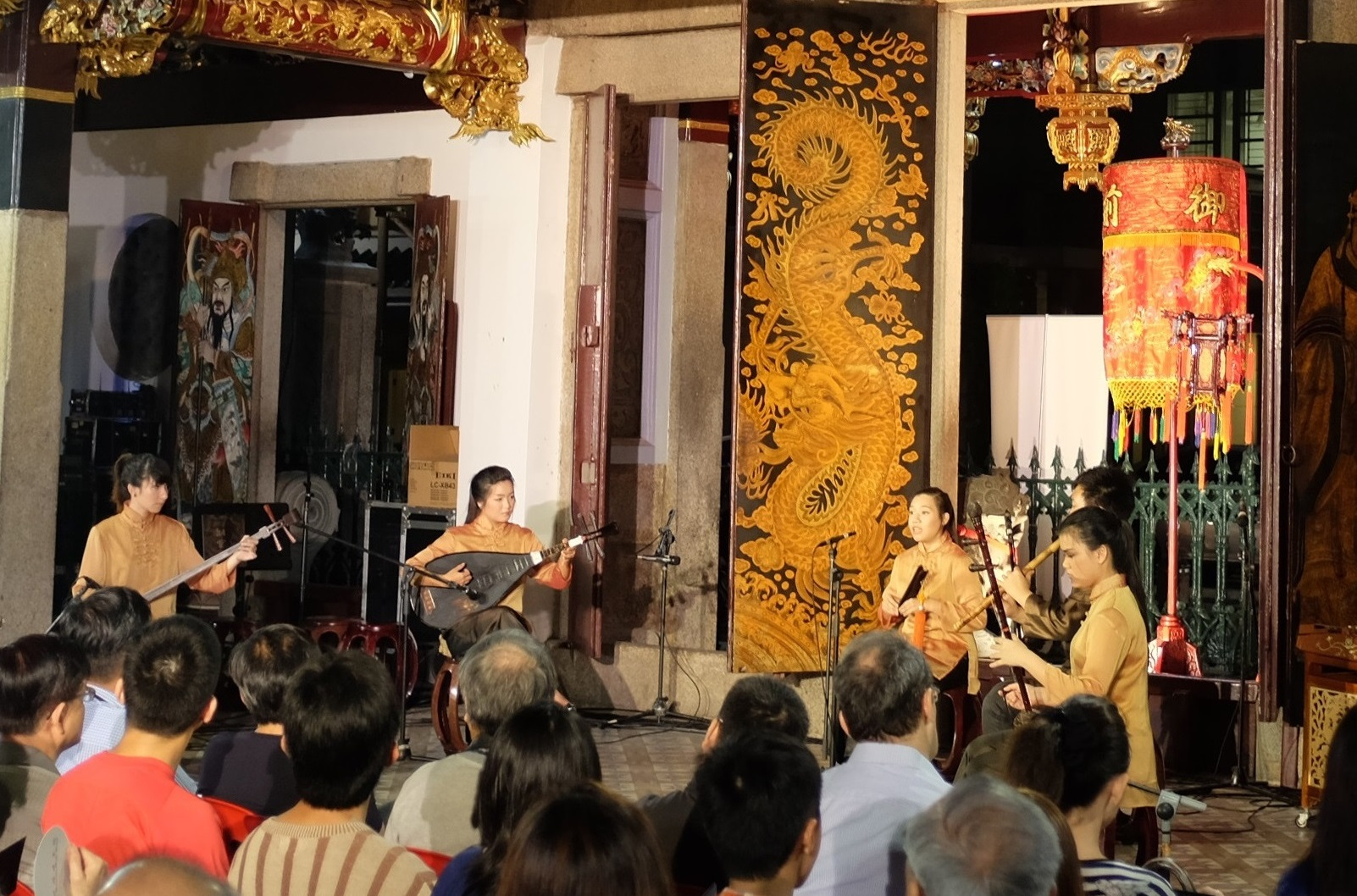 Nanyin performance during Guan Yin, Goddess of Mercy’s Birthday at Thian Hock Keng temple